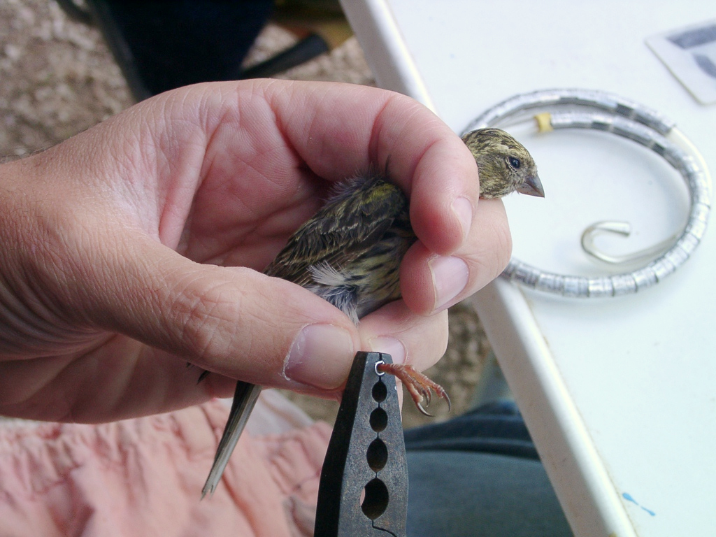 Bird ringing (bird banding) sequence, picture 4: Ringing the bird (European Serin, Serinus serinus). Cruzinha, Portimão, Portugal.